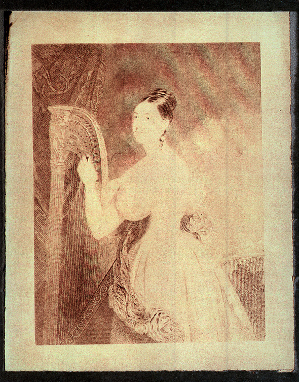 An experimental cyanotype of an engraving of a lady with a harp, by Sir John Herschel (1792-1871), 1842. Herschel invented the cyanotype or 'blueprint' in 1842, employing iron salts (ferric ammonium citrate and potassium ferricyanide) which produce Prussian blue under the action of light. It was a simple process to use and required only water as a fixative. The cyanotype was the only first-generation photographic technique to find any lasting use.